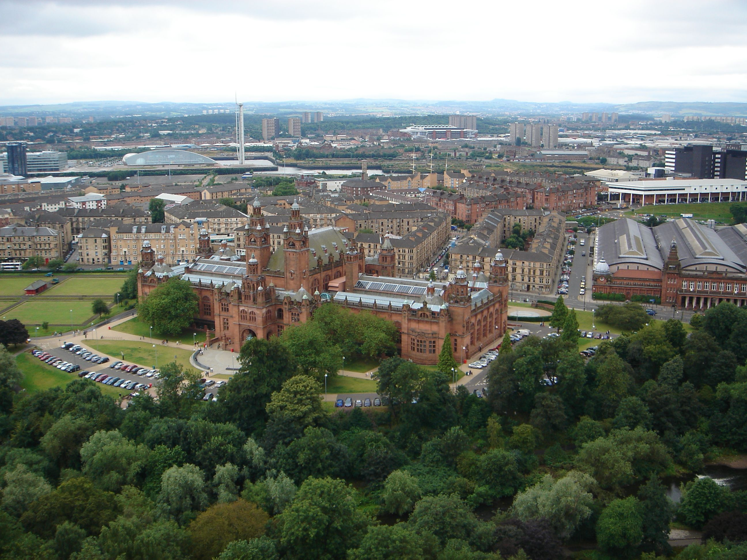 A view of Kelvingrove Art Gallery and Museum (wiki) (centre) in Glasgow (wiki), taken by me from the top of the University of Glasgow (wiki) tower. Also in the picture is the Glasgow Science Centre (wiki) on the banks of the river River Clyde (wiki), and the Glasgow_Museum_of_Transport (wiki)